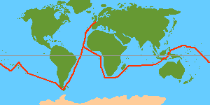 Journey of Samuel wallis 1766 - 1768